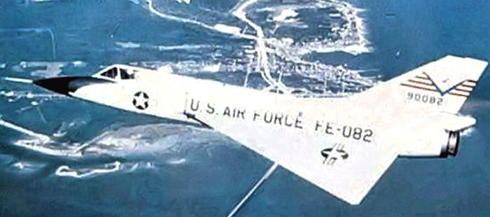 438th Fighter-Interceptor Squadron F-106 59-0082